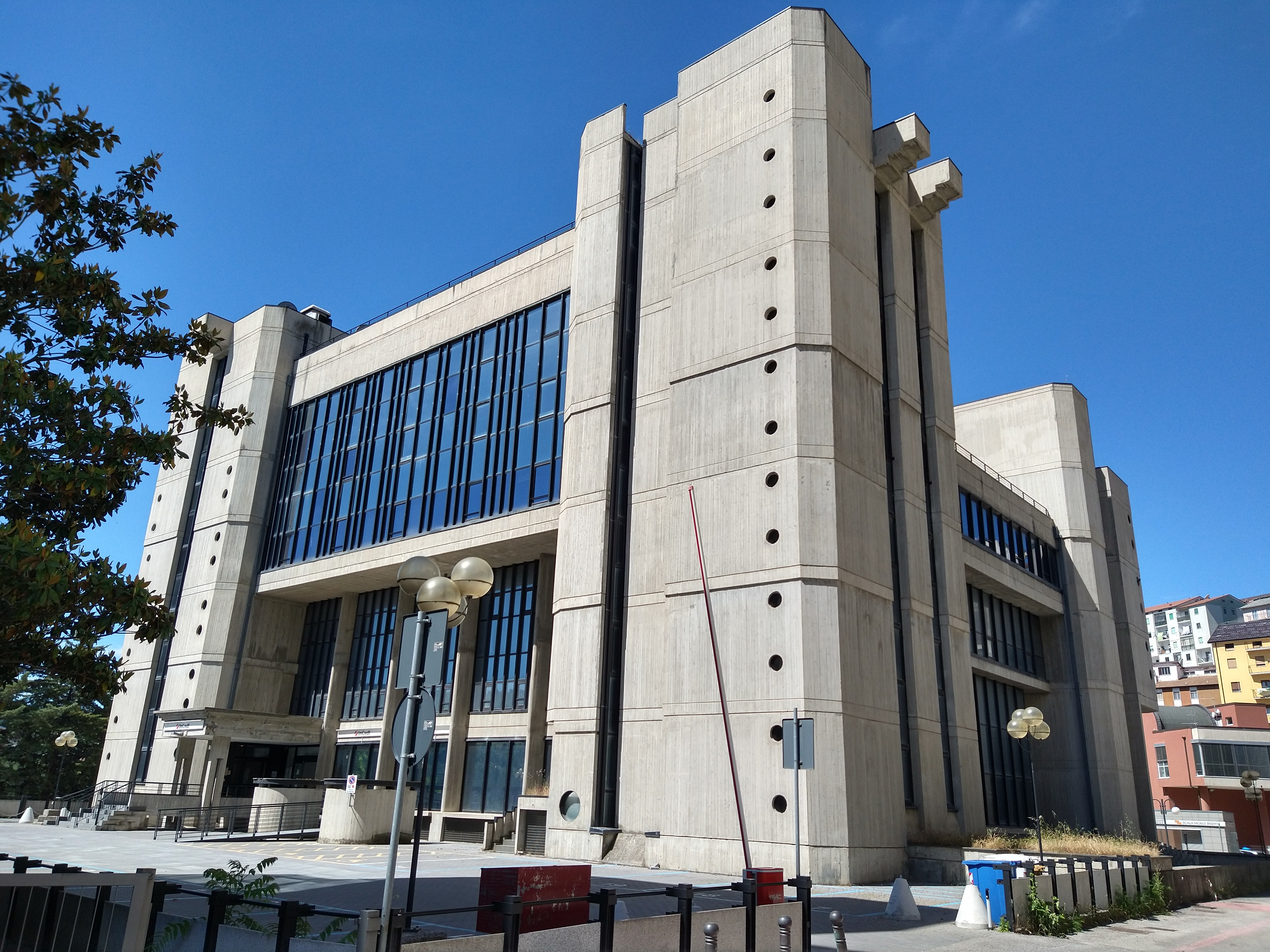 Angular view of the rear and right side of the Former Palace of Banca Popolare di Pescopagano in Potenza, Italy